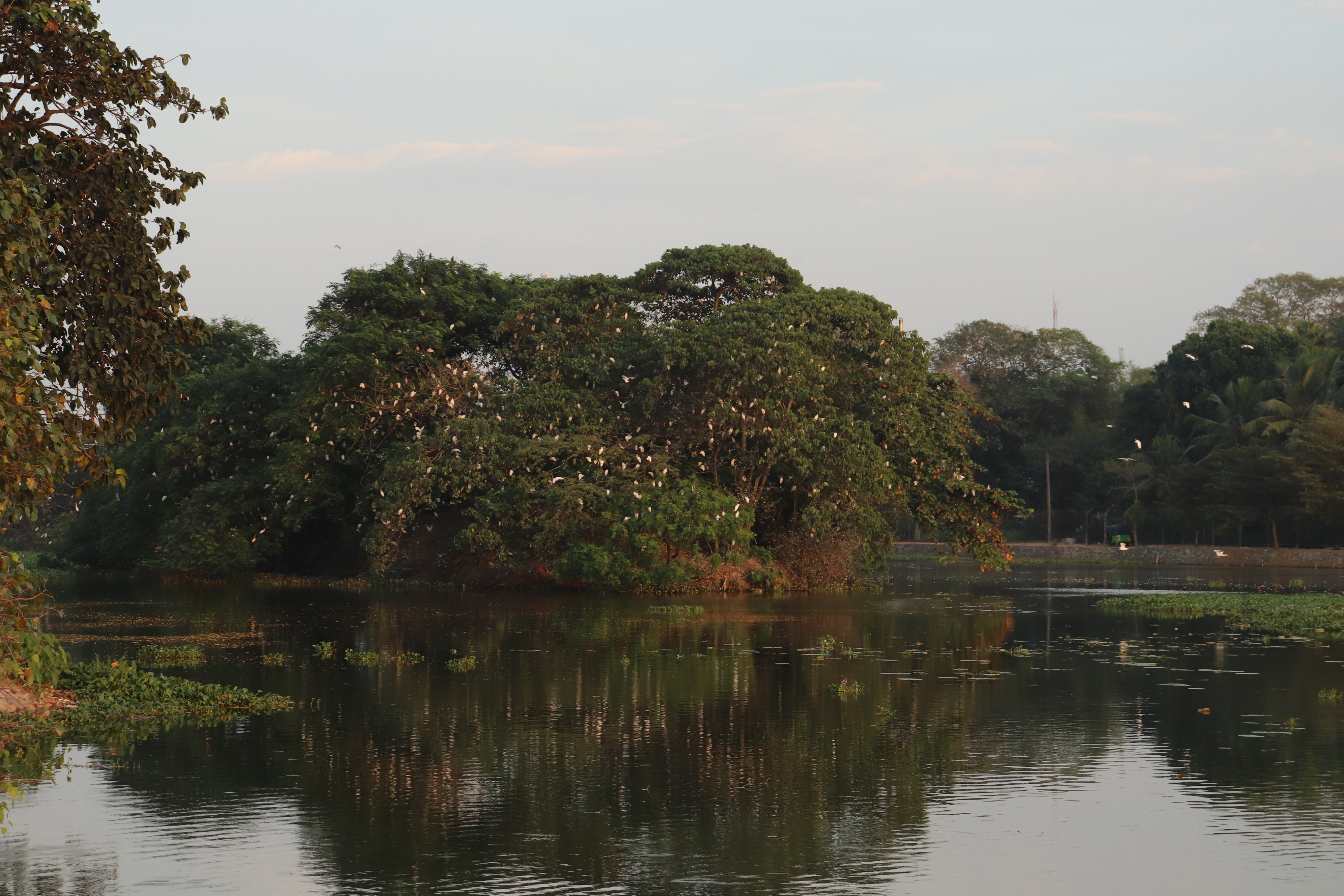 Beauty Within